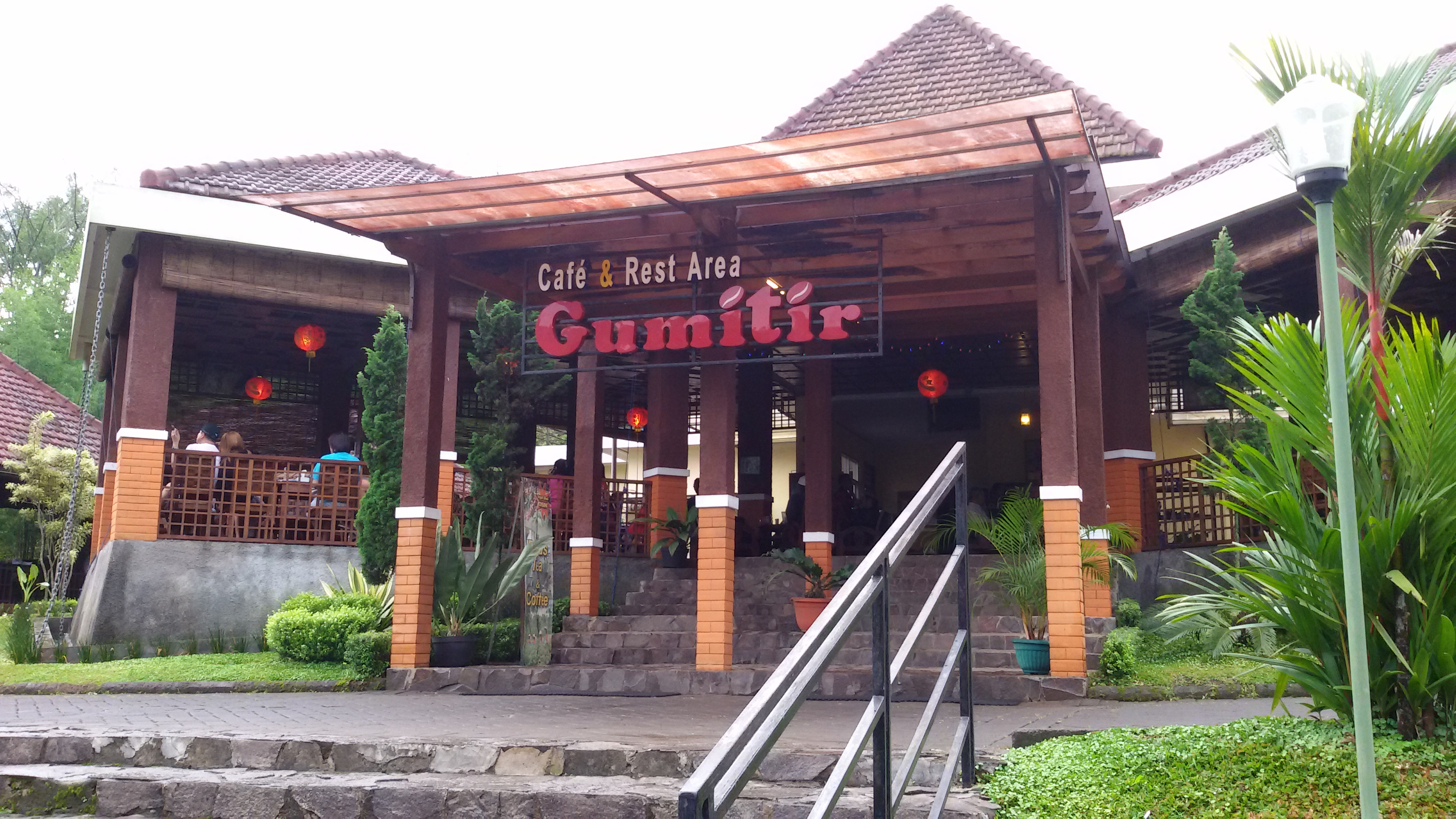 Gumitir Cafe main building